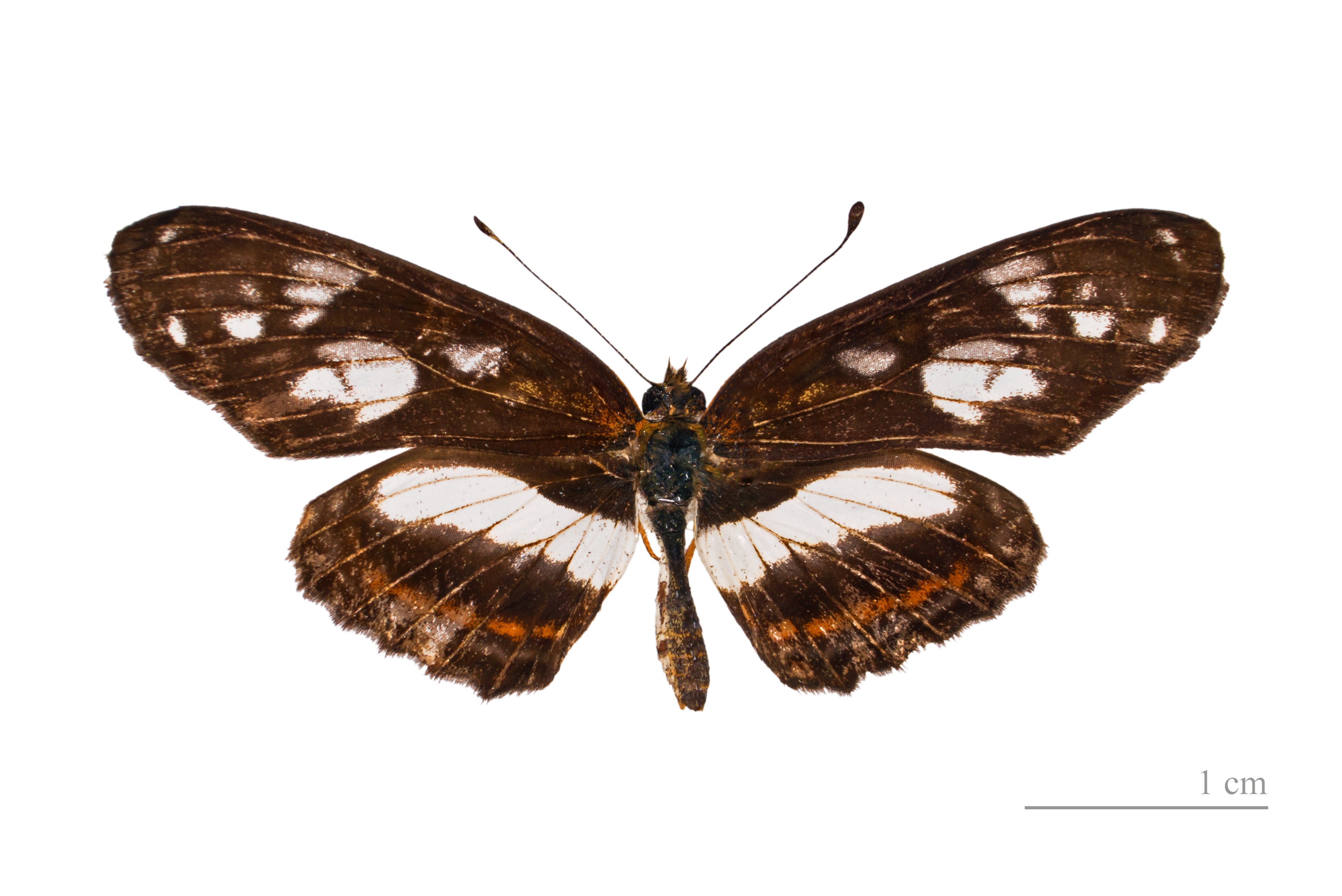 ♂ - Dorsal side Locality: Sentier du Rorota Cayenne, French Guianna.